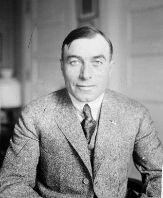 Photograph of Fred Mitchell, baseball player & manager